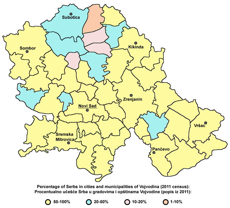 Percentage of Serbs in cities and municipalities of Vojvodina (2011 census).